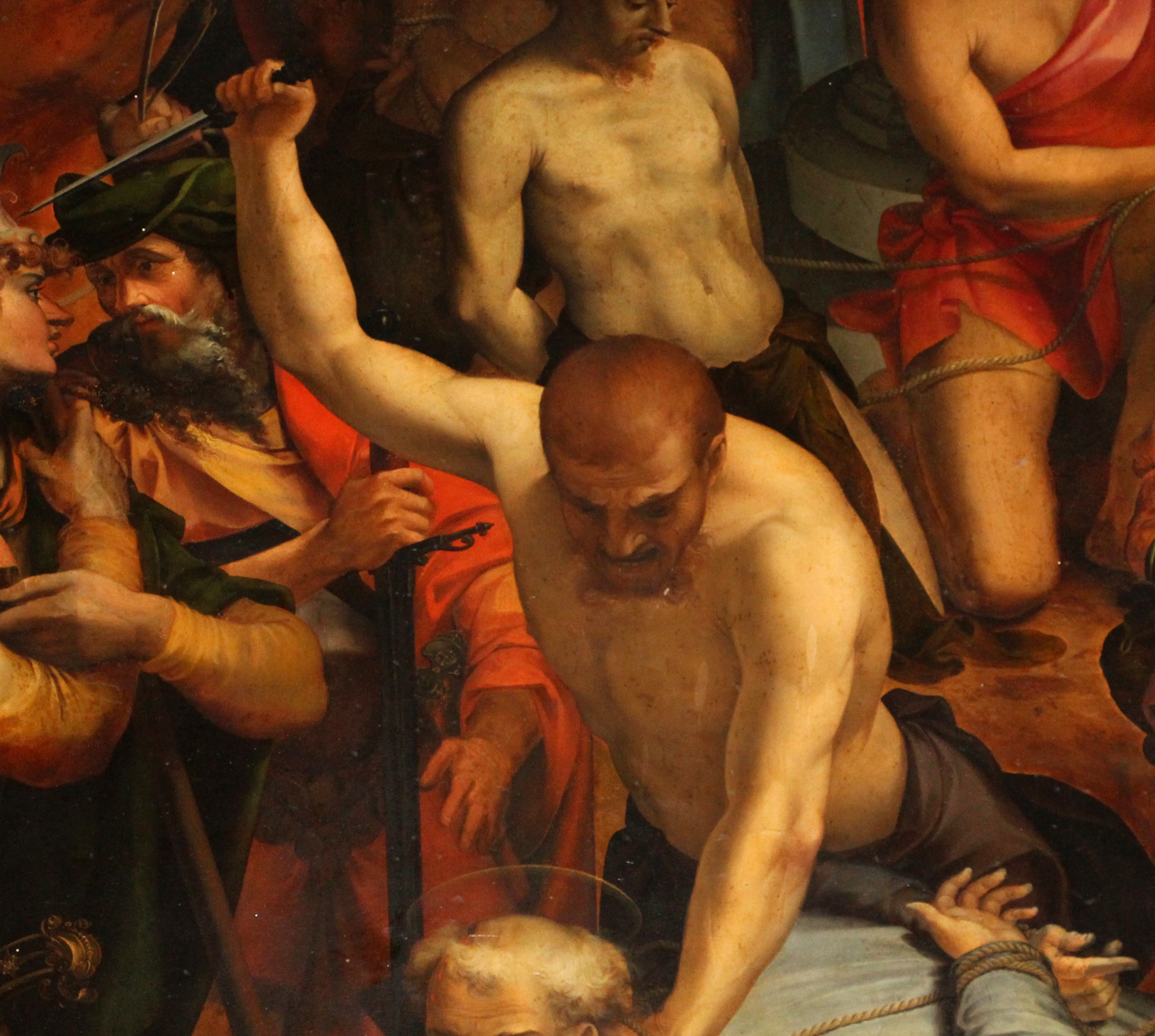 Martyrdom of Saint Romulus by Carlo Portelli